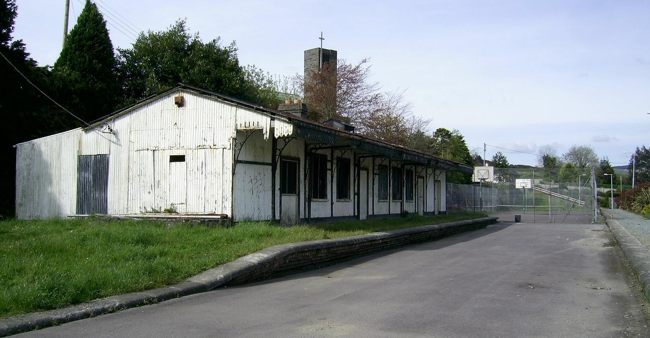 Former station at Drimoleague on the Cork (taken 23 March, 2005)